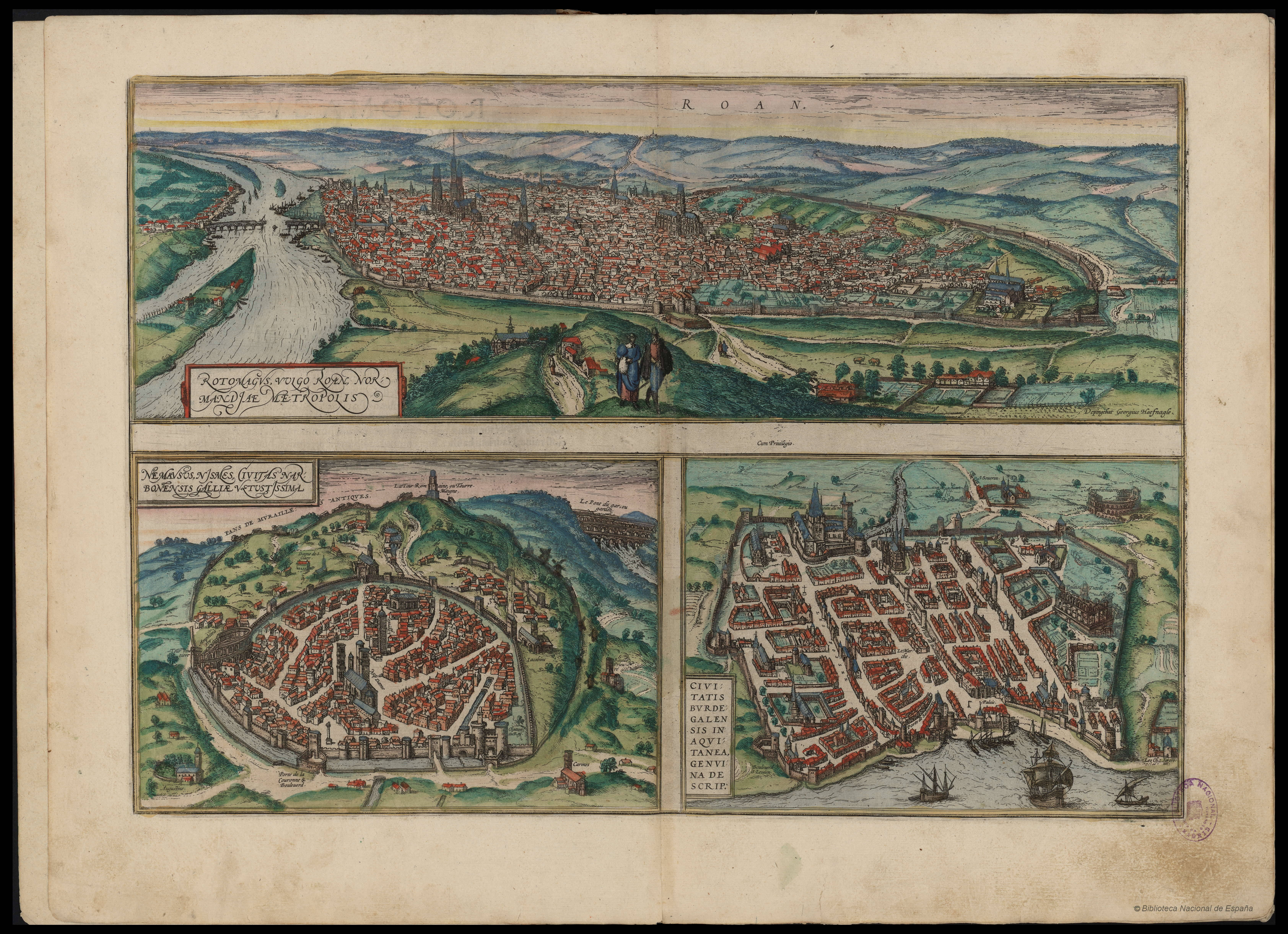 Nîmes, after Sebastian Münster 1569